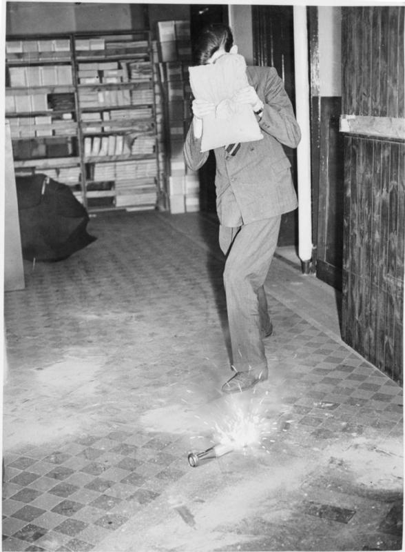 Air Raid Precautions and Civil Defence on Britain's Home Front- How To Extinguish a Fire Bomb, C 1940 If a stirrup pump is unavailable, a half-filled sand bag should be held up to protect the face and upper body, and the fire bomb is to be approached with caution. Once near enough, the sand bag should be thrown onto the bomb to extinguish it.